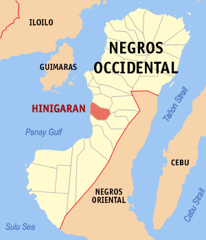 Map of Negros Occidental showing the location of Hinigaran